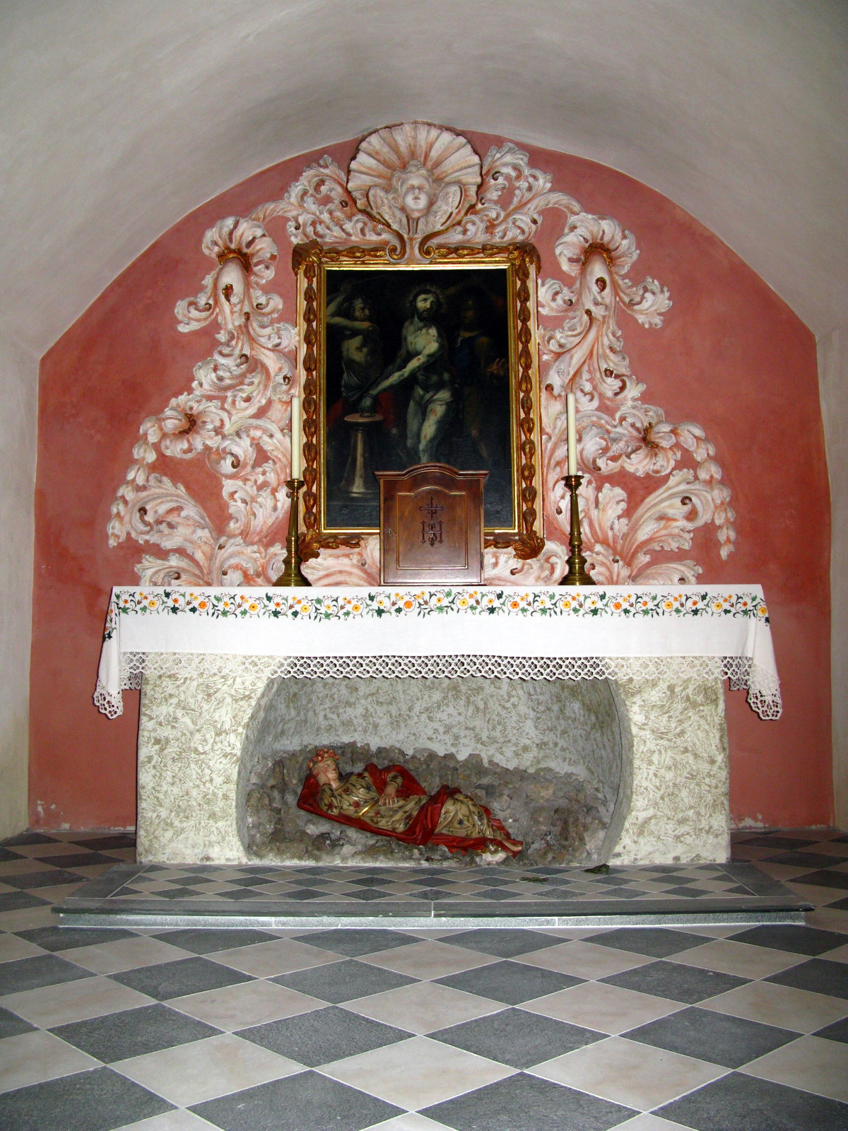 Side altar in the parish church of Maria Rain, district Klagenfurt-Land near Klagenfurt in Carinthia / Austria / EU.